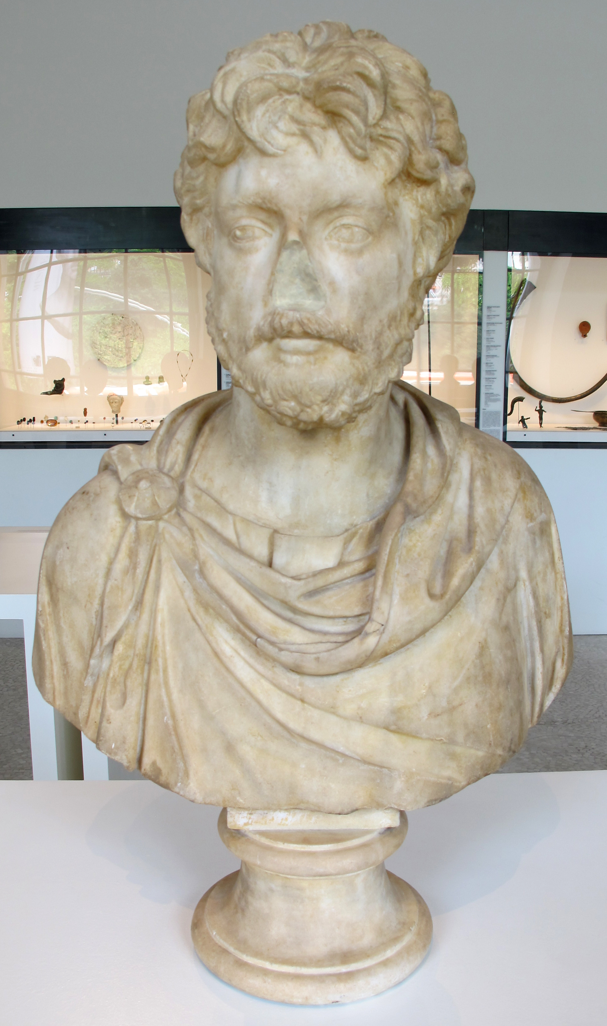 Roman antiquities in the Musée d'art et d'histoire de Genève